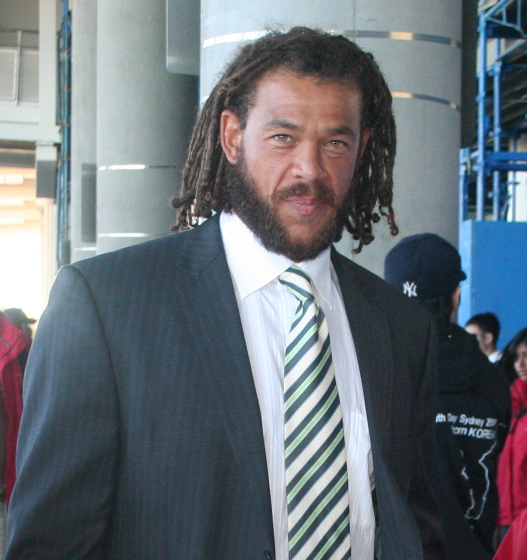 Australian cricketer Andrew Symonds